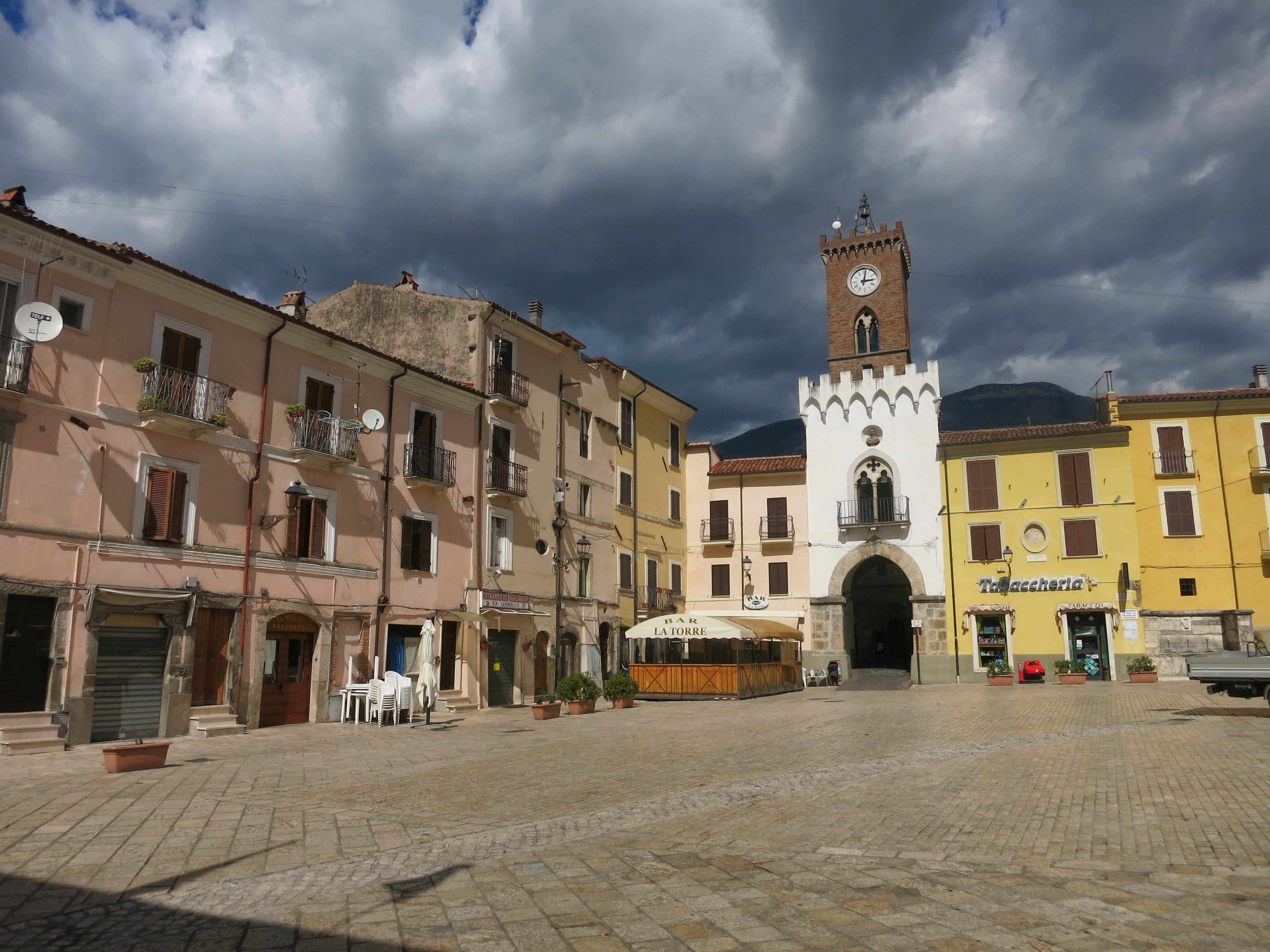 Umberto I square with the Civic Tower - Borgo Velino, province of Rieti (central Italy)